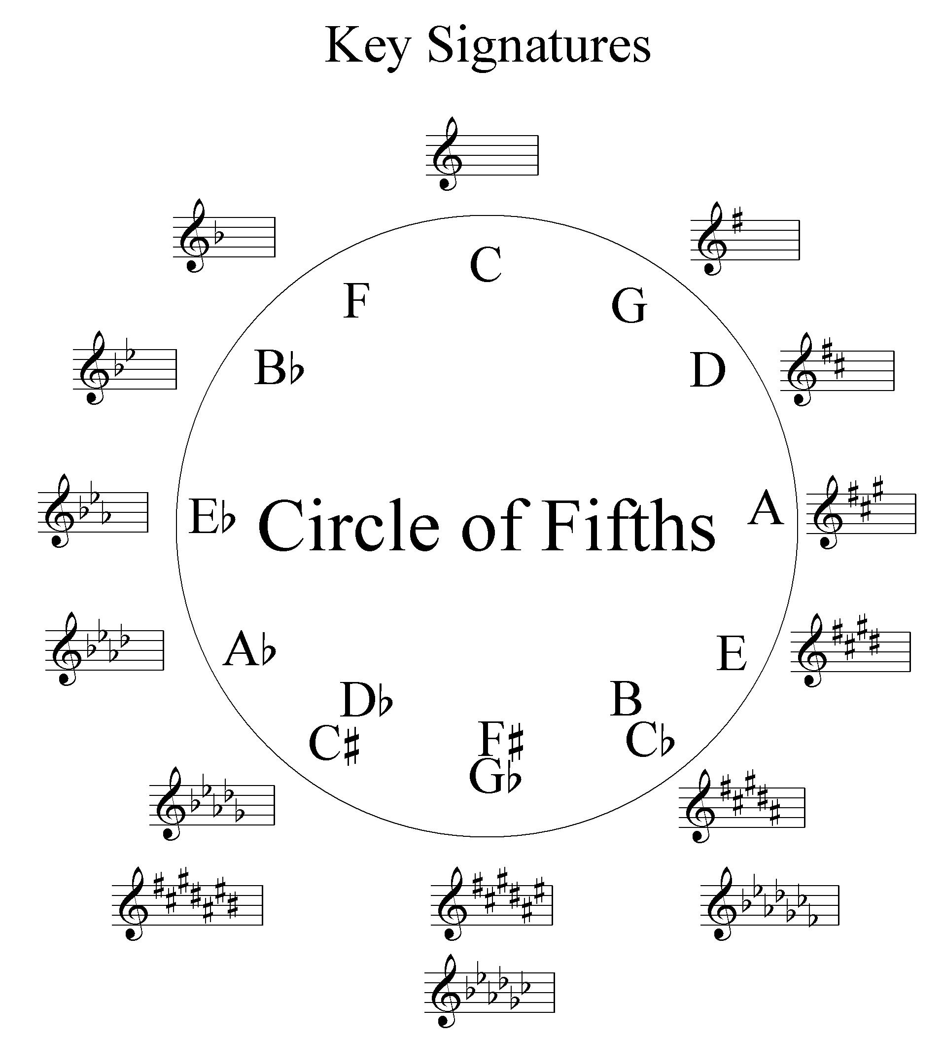 Music theory circle of fifths diagram